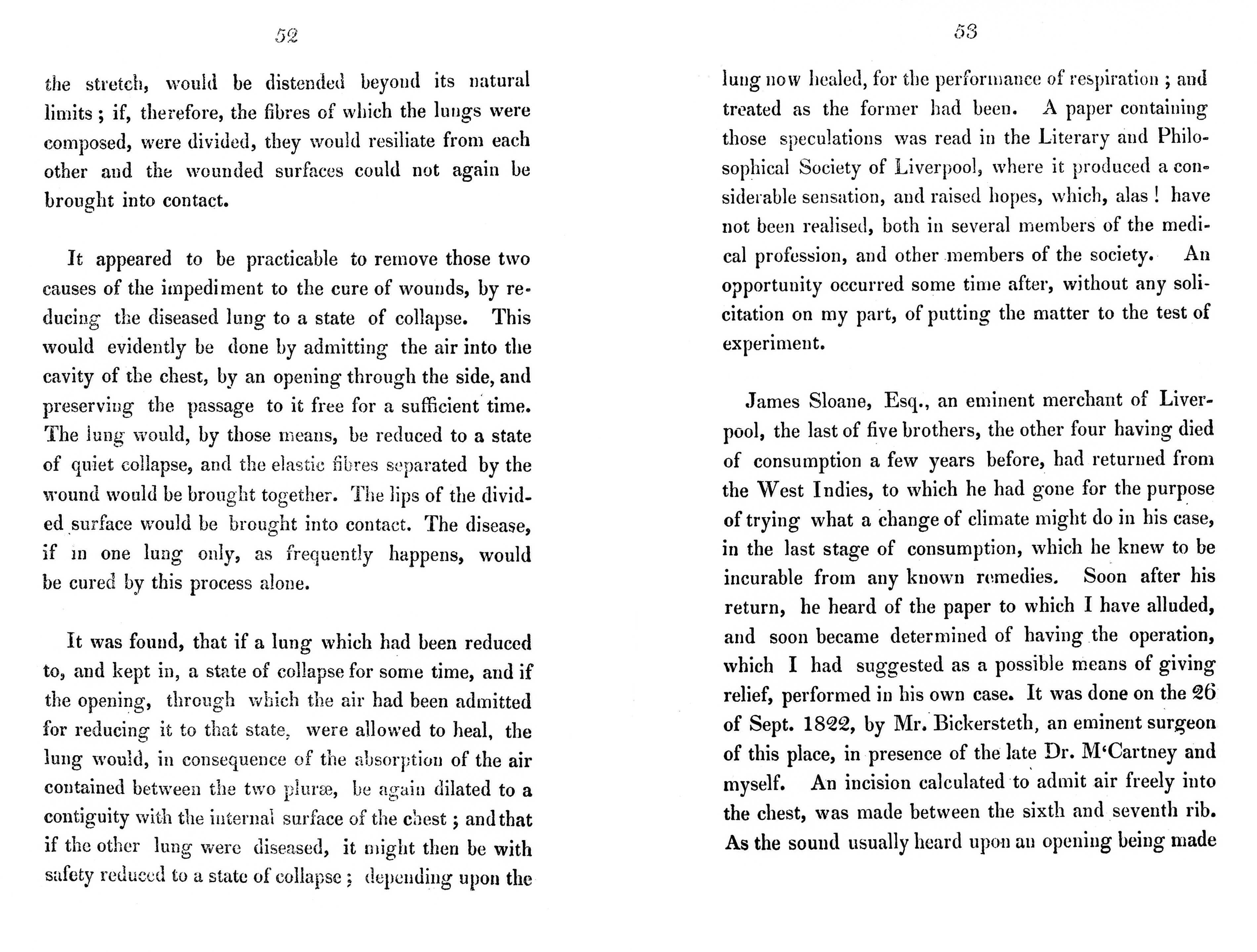 A discussion of the possibility of performing an artificial pneumothroax , and an account of the first attempt. Rare Books Keywords: infectious diseases; James Carson